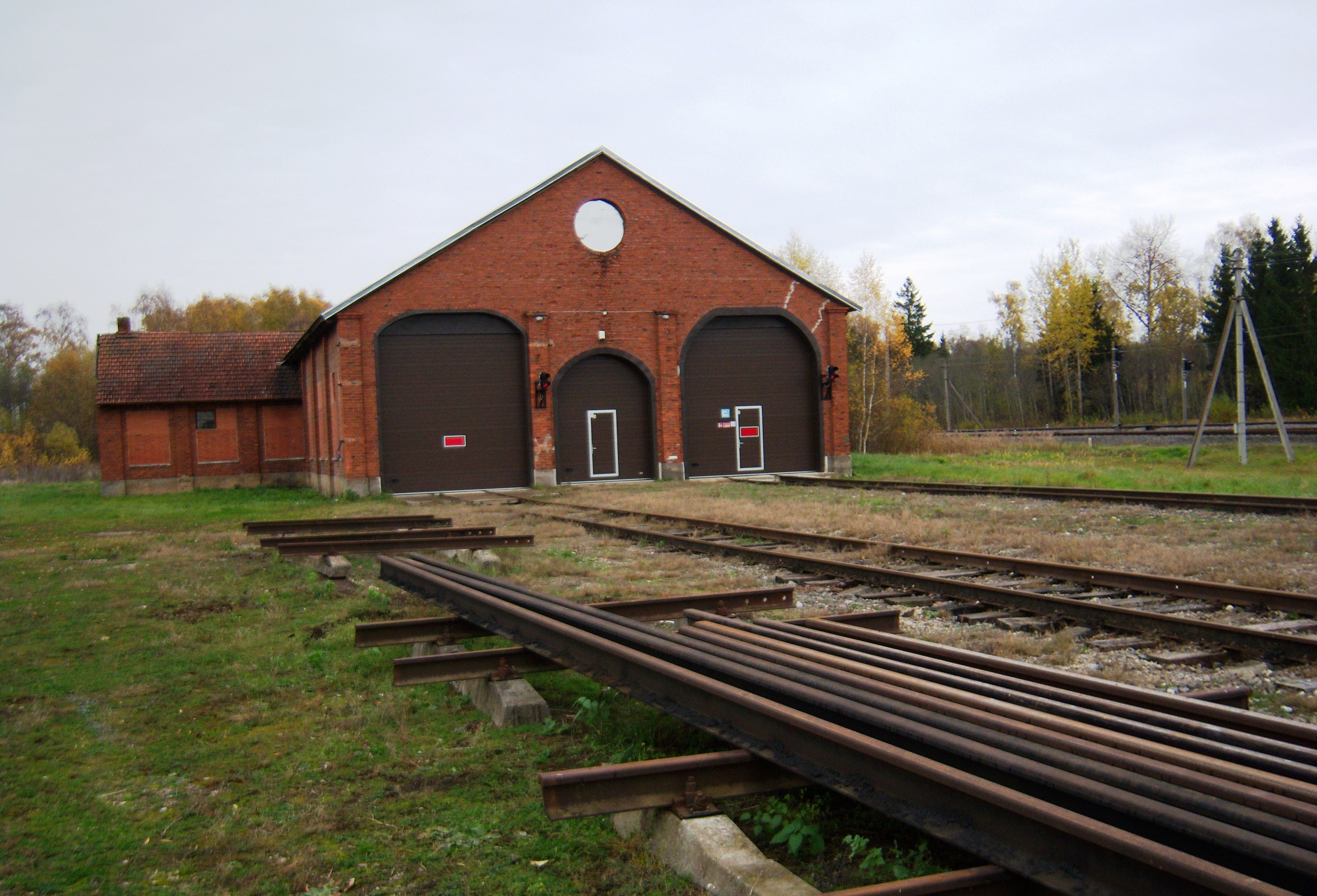 Railway stop, Skapiškis, Kupiškis District, Lithuania